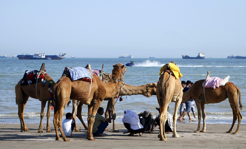 Bandar Abbas beaches, Nowruz 2018. main album